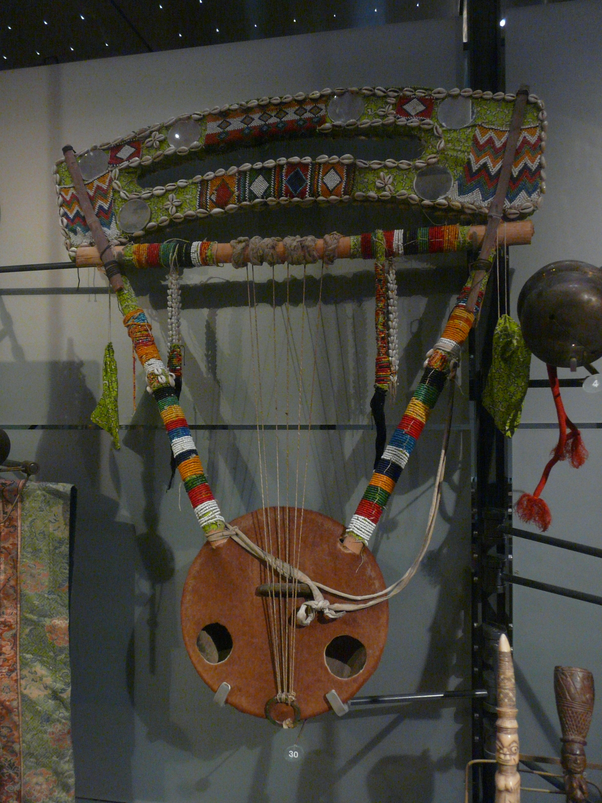 Eritrean Rababa, Horniman Museum, Forest Hill References Rebaba (Lyre), Mits'iwa, Eritrea. Horniman Museum & Gardens. "Rebaba, bowl lyre. The six strings run between the cross-bar and a metal ring at the base. The mammal-skin sound table has two circular sound holes and is tensioned by leather straps around the wooden resonator. Wooden bridge, yoke and supporting arms. The yoke is elaborately decorated with beadwork, shells and mirrors."